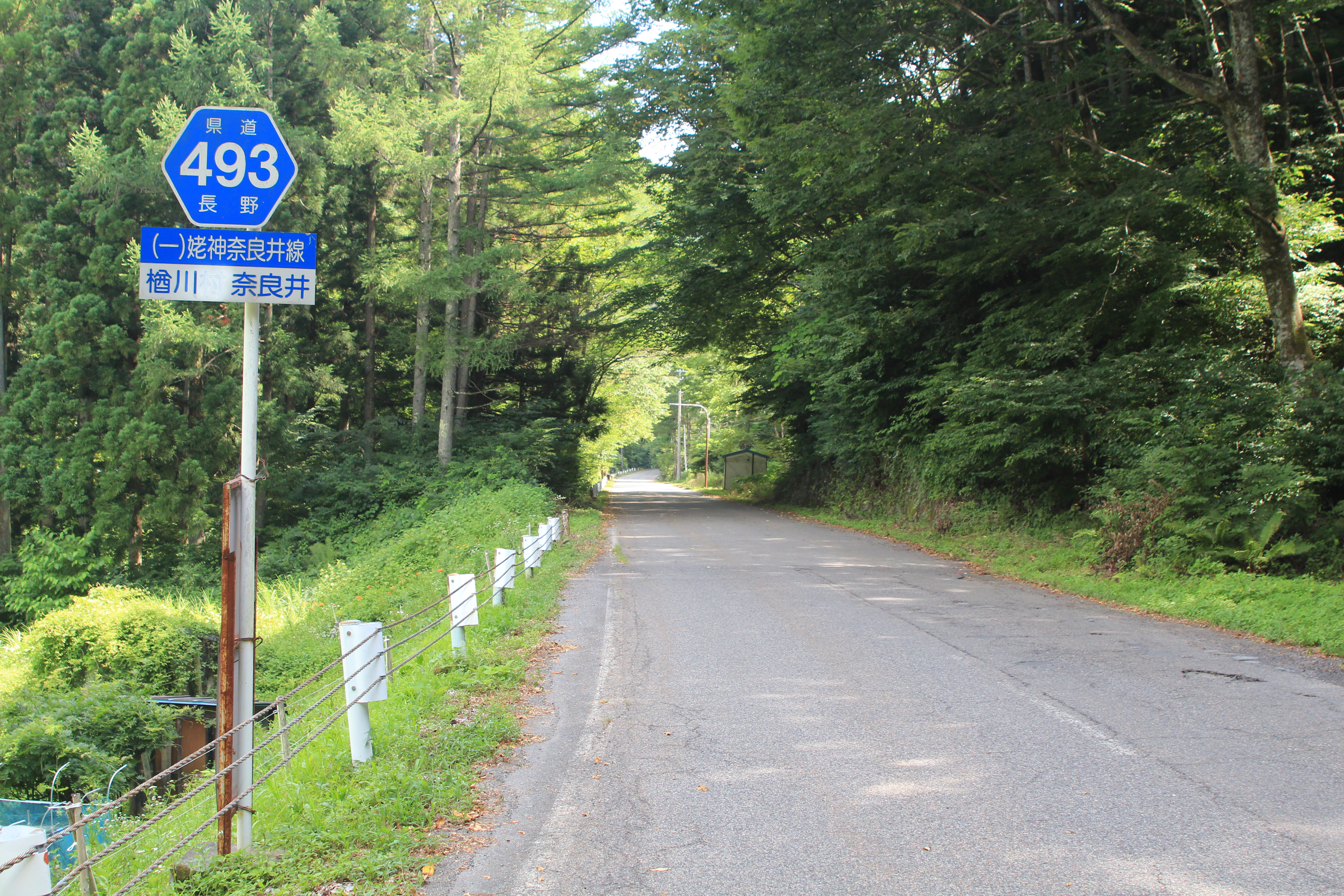 Nagano Prefectural Road Route 493 in Narai, Shiojiri, Nagano Prefecture, Japan.